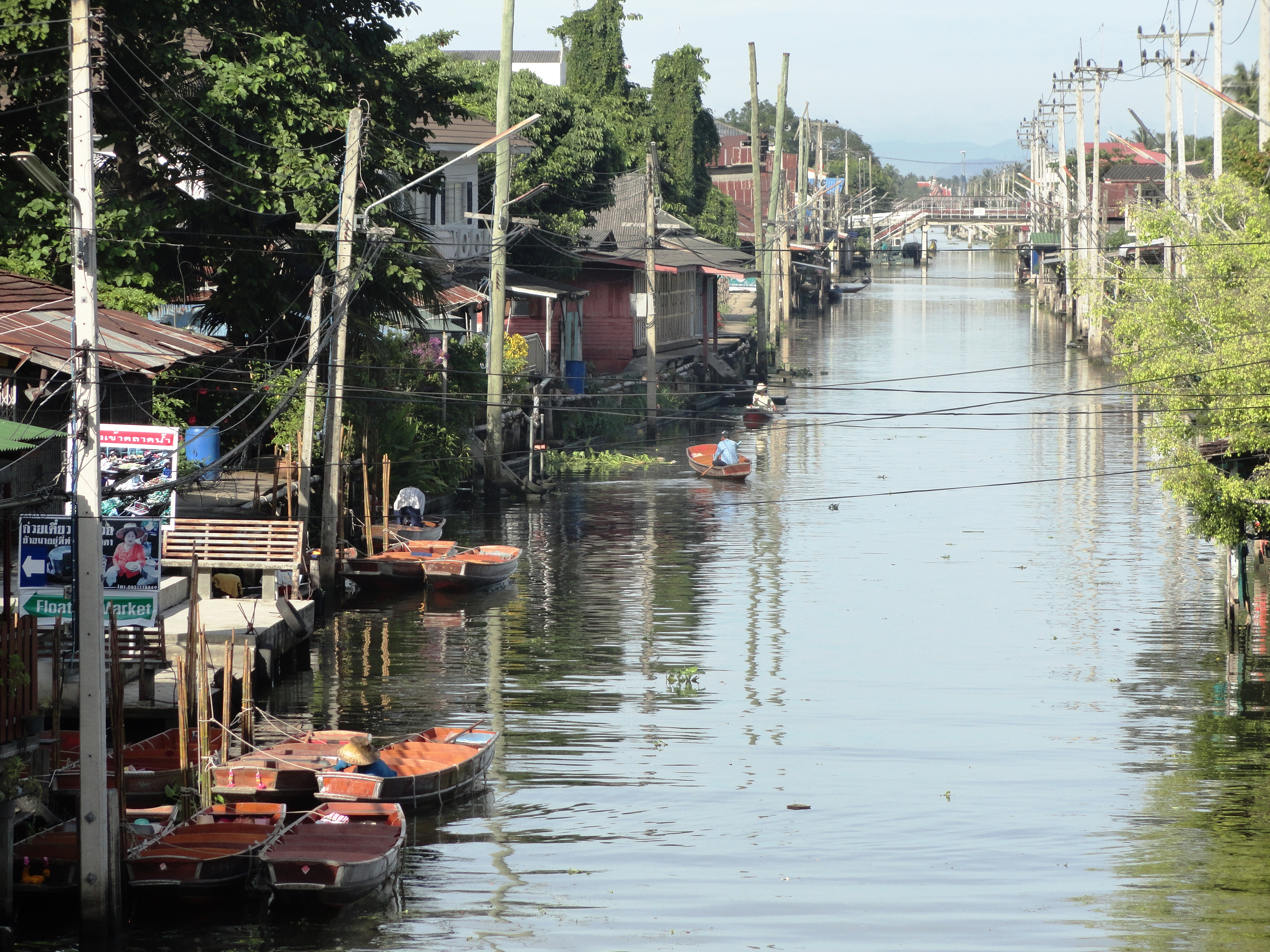 A canal at Damnoen Saduak Floating Market. Be there at 7 AM to enjoy the place!